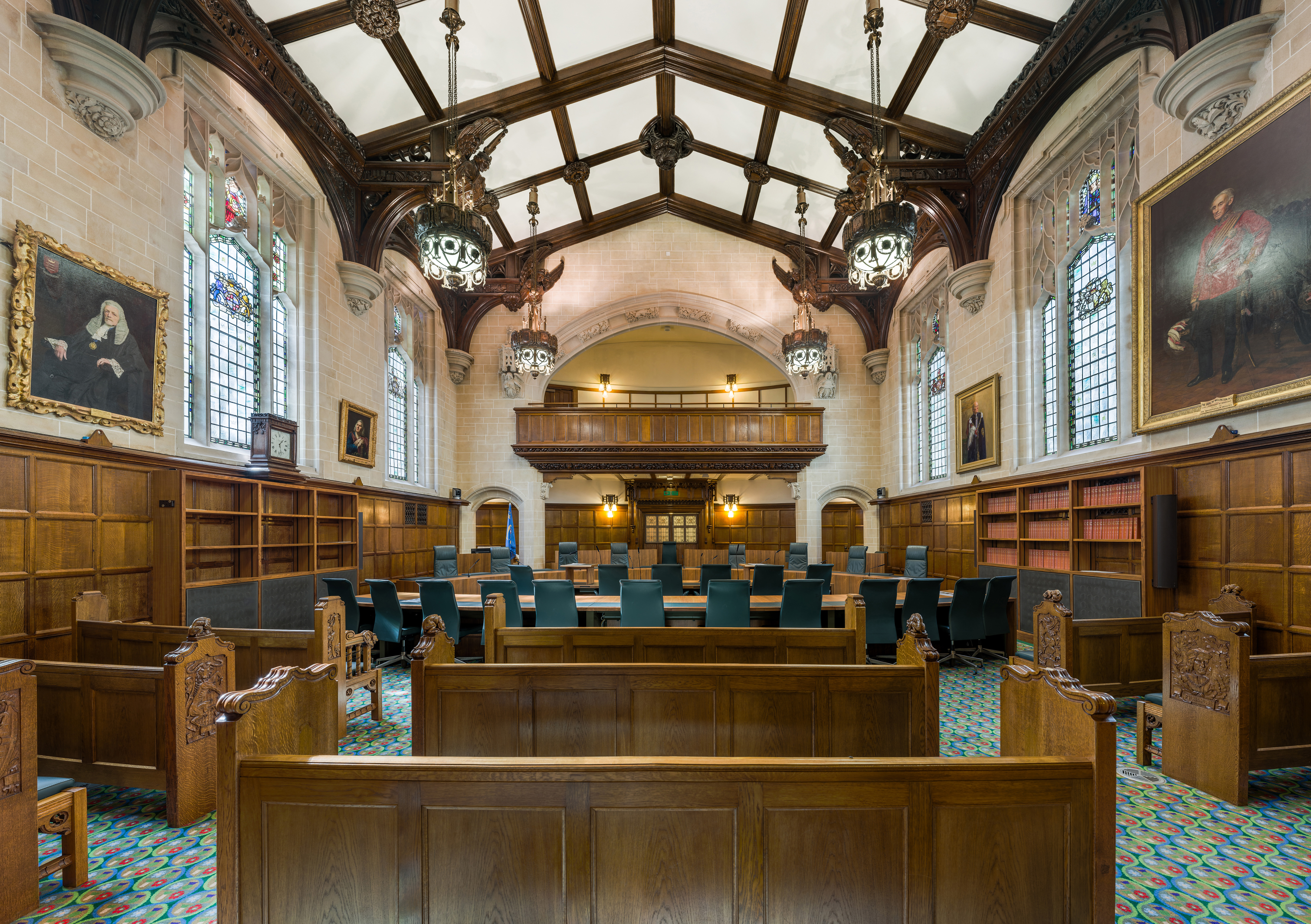 The interior of Court 1, the largest of the three courtrooms of the Supreme Court of the United Kingdom in Middlesex Guildhall, London, England.